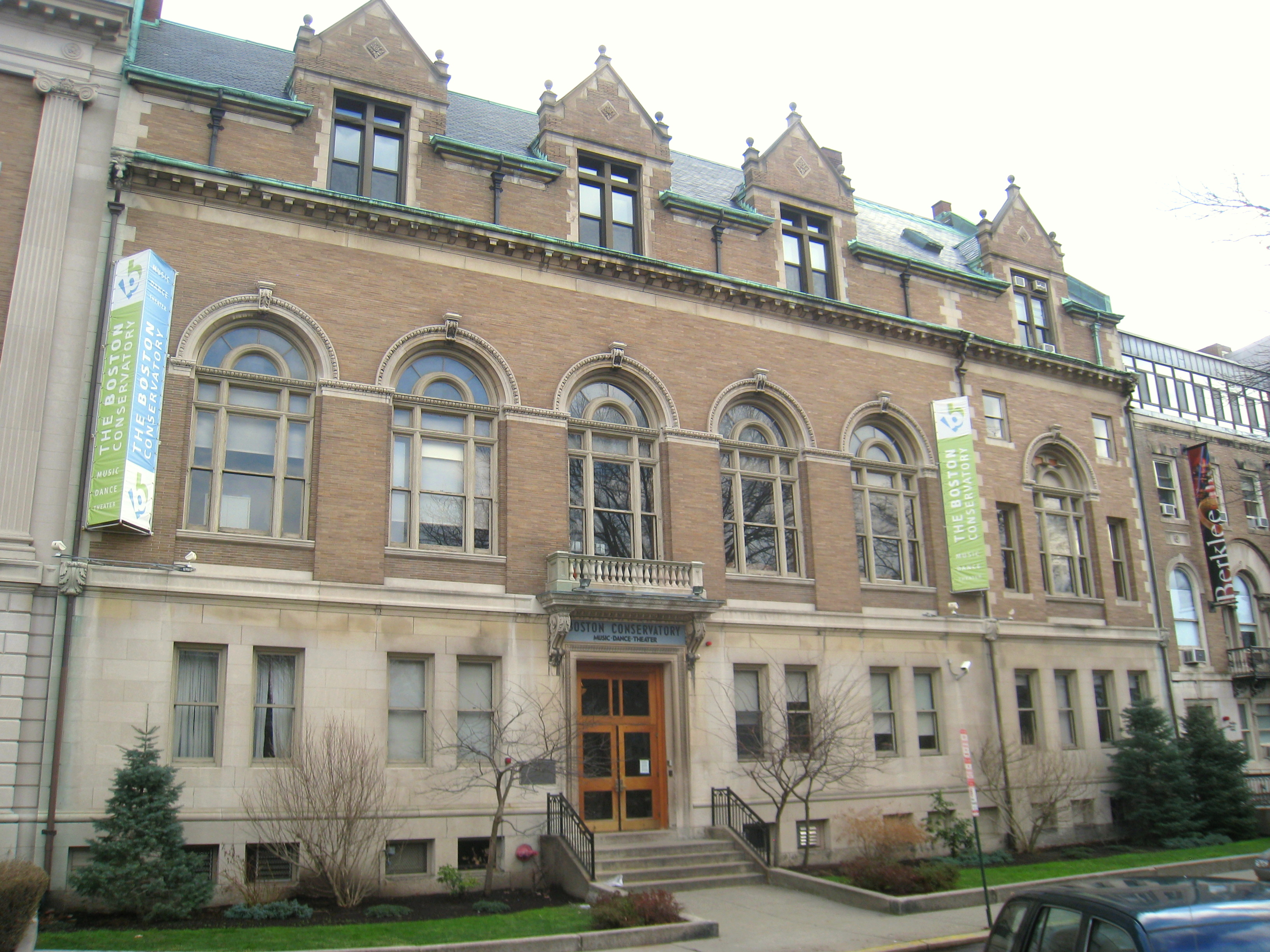 Boston Conservatory, 8 Fenway, Boston, Massachusetts, USA.